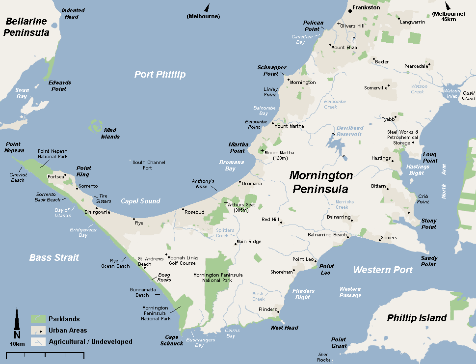 A basic map of mornington peninsula.